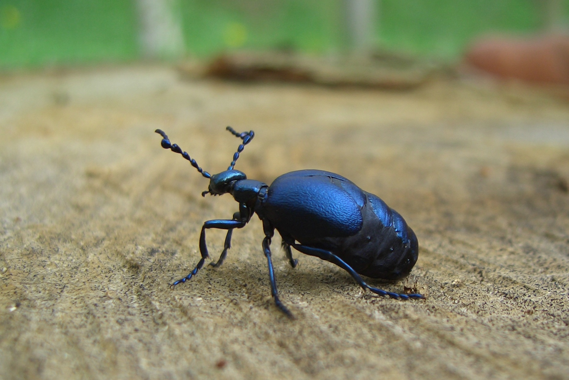 Ölkäfer, gefunden in Jockgrim, Germany Oelkaefer - Meloe violaceus - found in Jockgrim, Germany selbst fotografiert - 10.April 2005 fotographed by own - 10.April 2005 Photograph: Klaus E. Gebhart